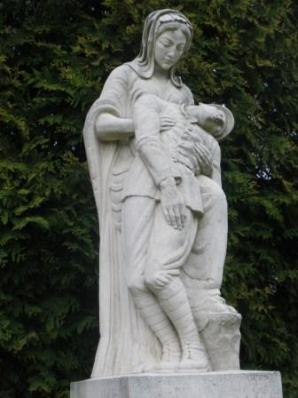 The monument aux morts at Beaumont in the Somme; a work by Charles Gern